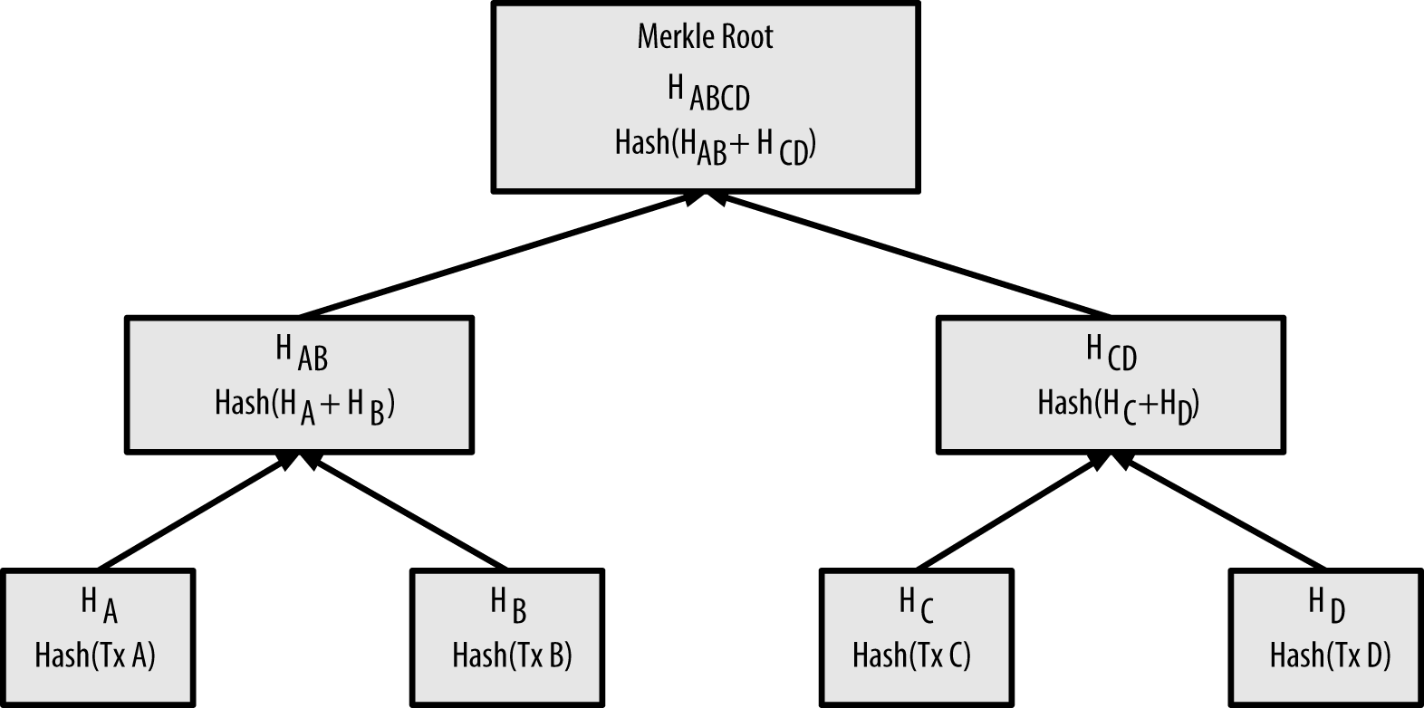 Mercle's tree